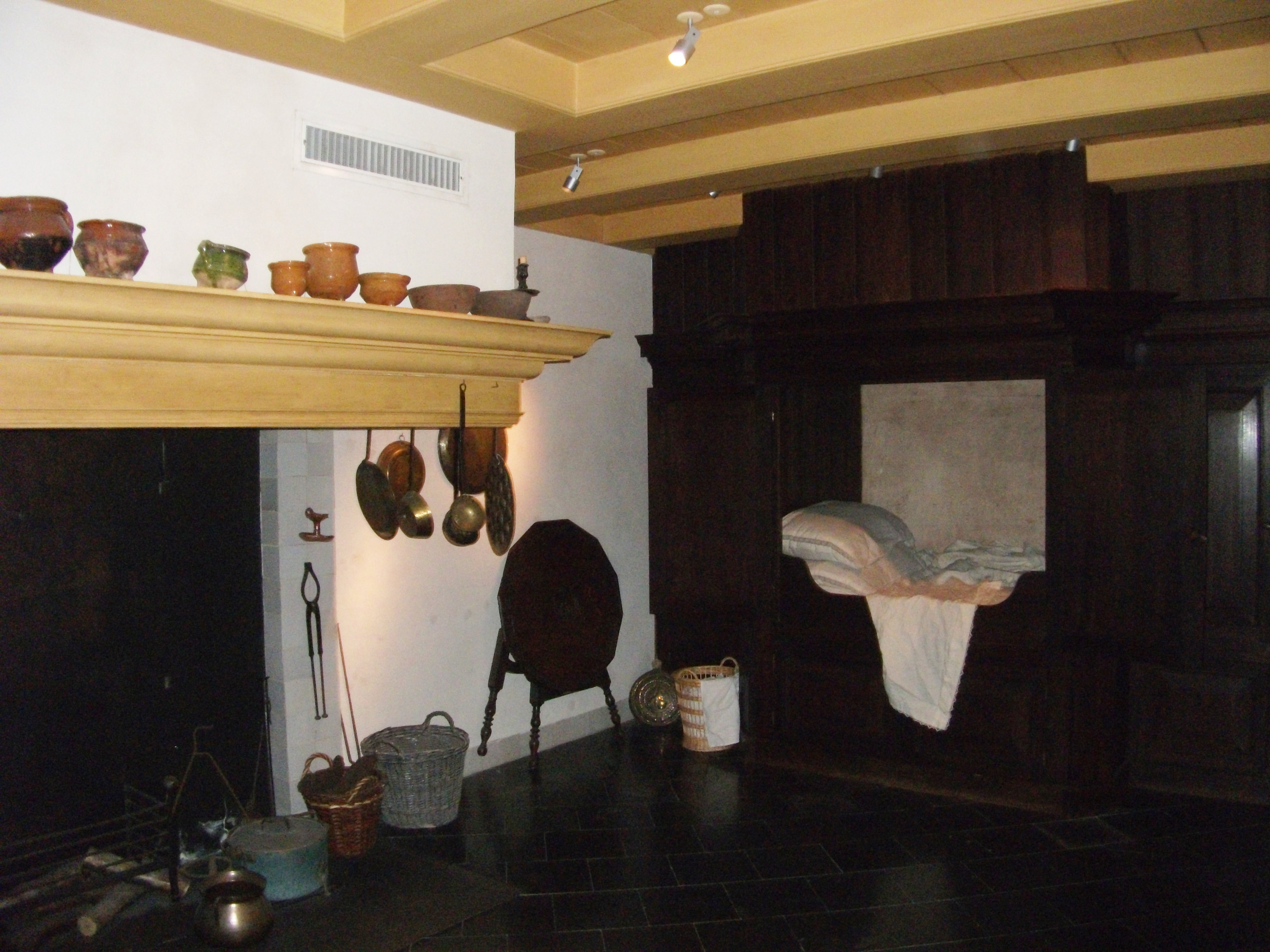 Rembrandt House Museum, Amsterdam. The kitchen with maid's bed